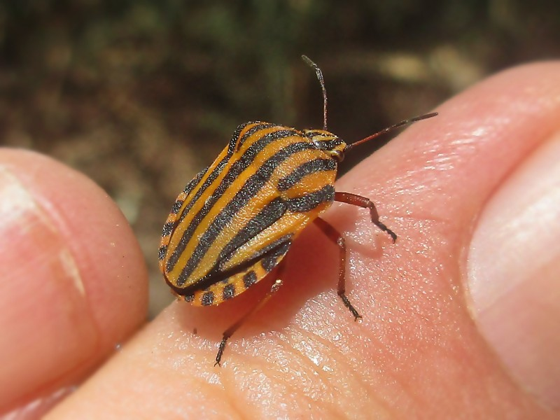 Graphosoma italicum sardiniensis (Pentatomidae) (Striped shield bug) - (imago), Narbolia (comuni), Italy